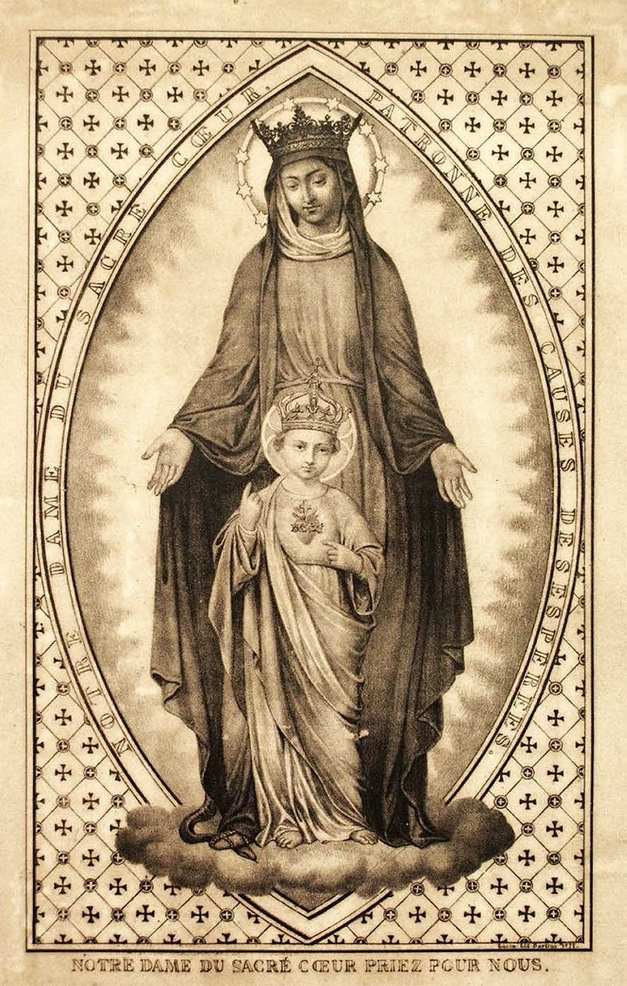 Our Lady of the Sacred Heart in 1870